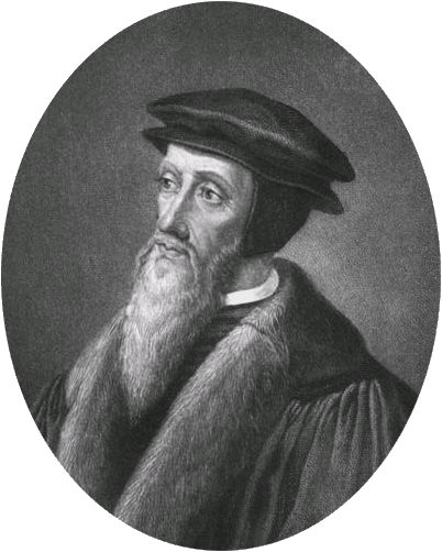 John Calvin